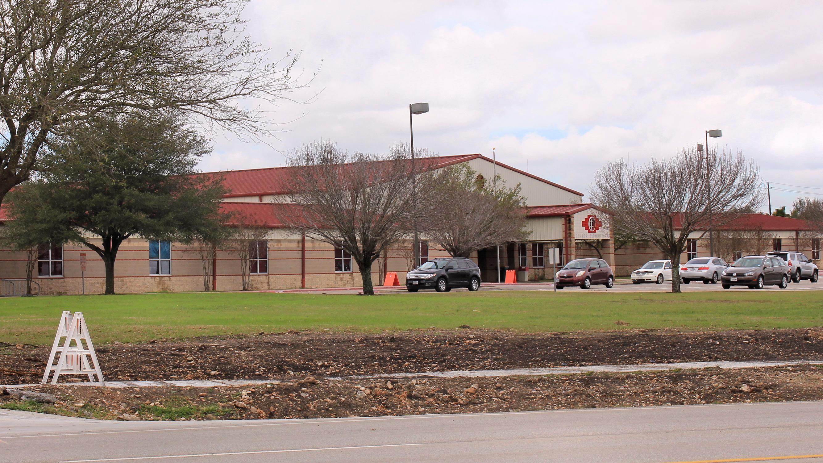 Decker Elementary School is located in unincorporated Travis County, Texas, United States It is a part of the Manor Independent School District.